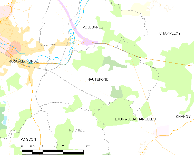 Map of French municipality